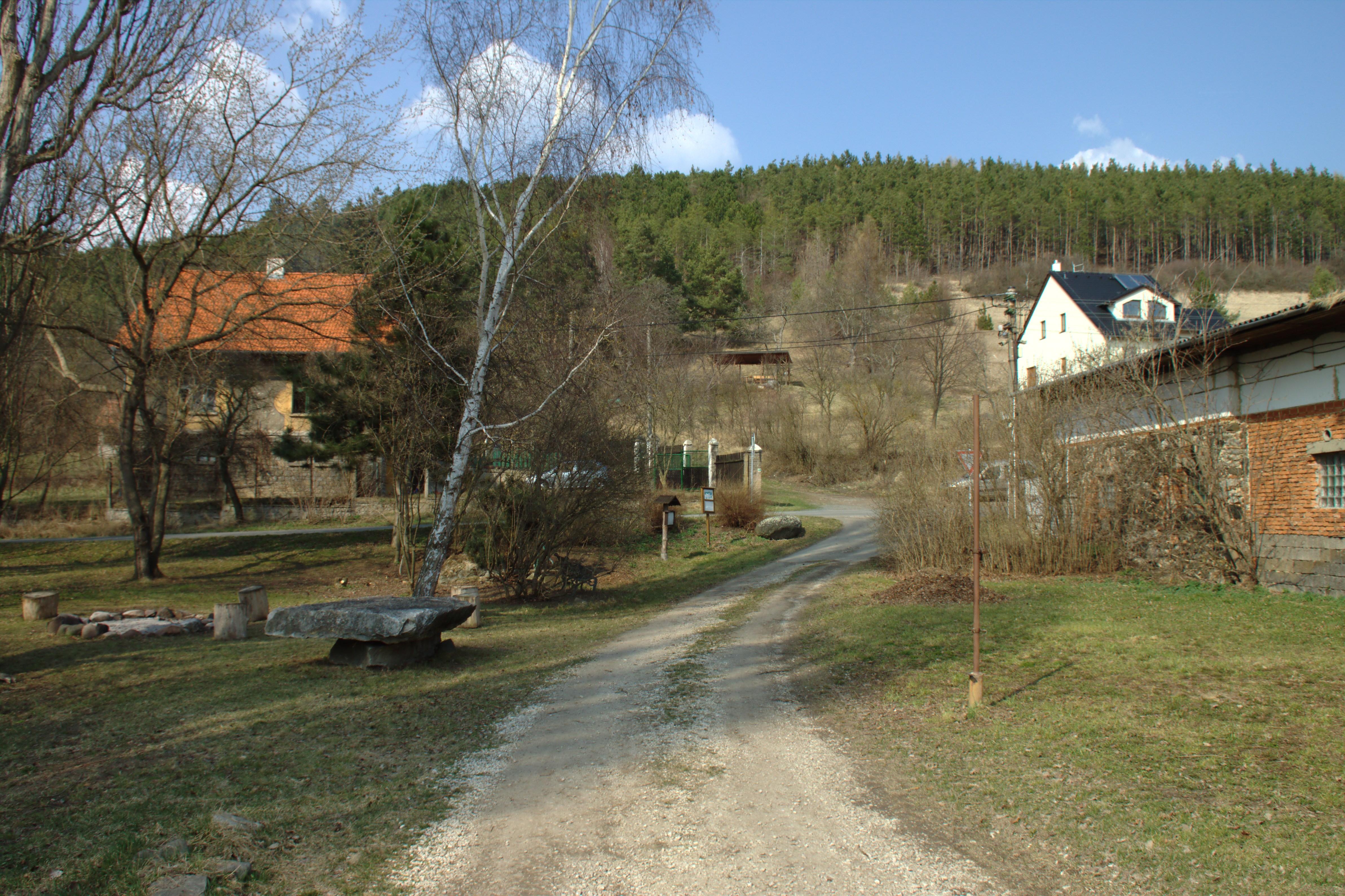 The village of Slavíky (part of the town of Tmaň) in Central Bohemian Region, CZ